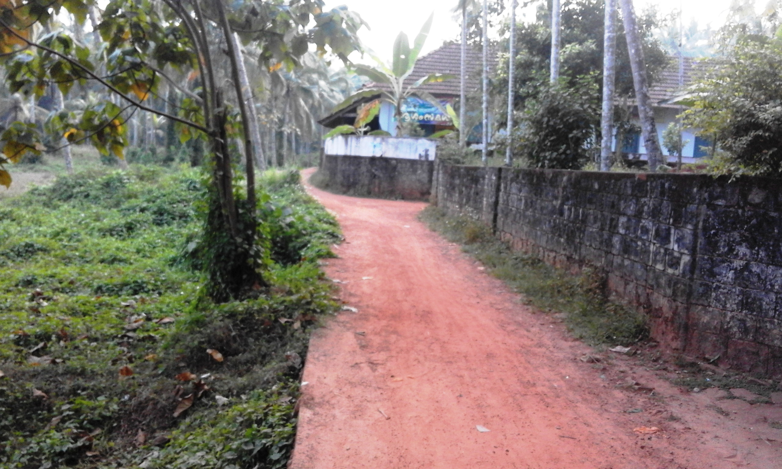 Balussery, Kozhikode District, Kerala Province, India.